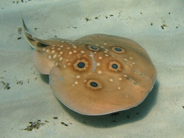 Common torpedo (Torpedo torpedo) off Corsica, France